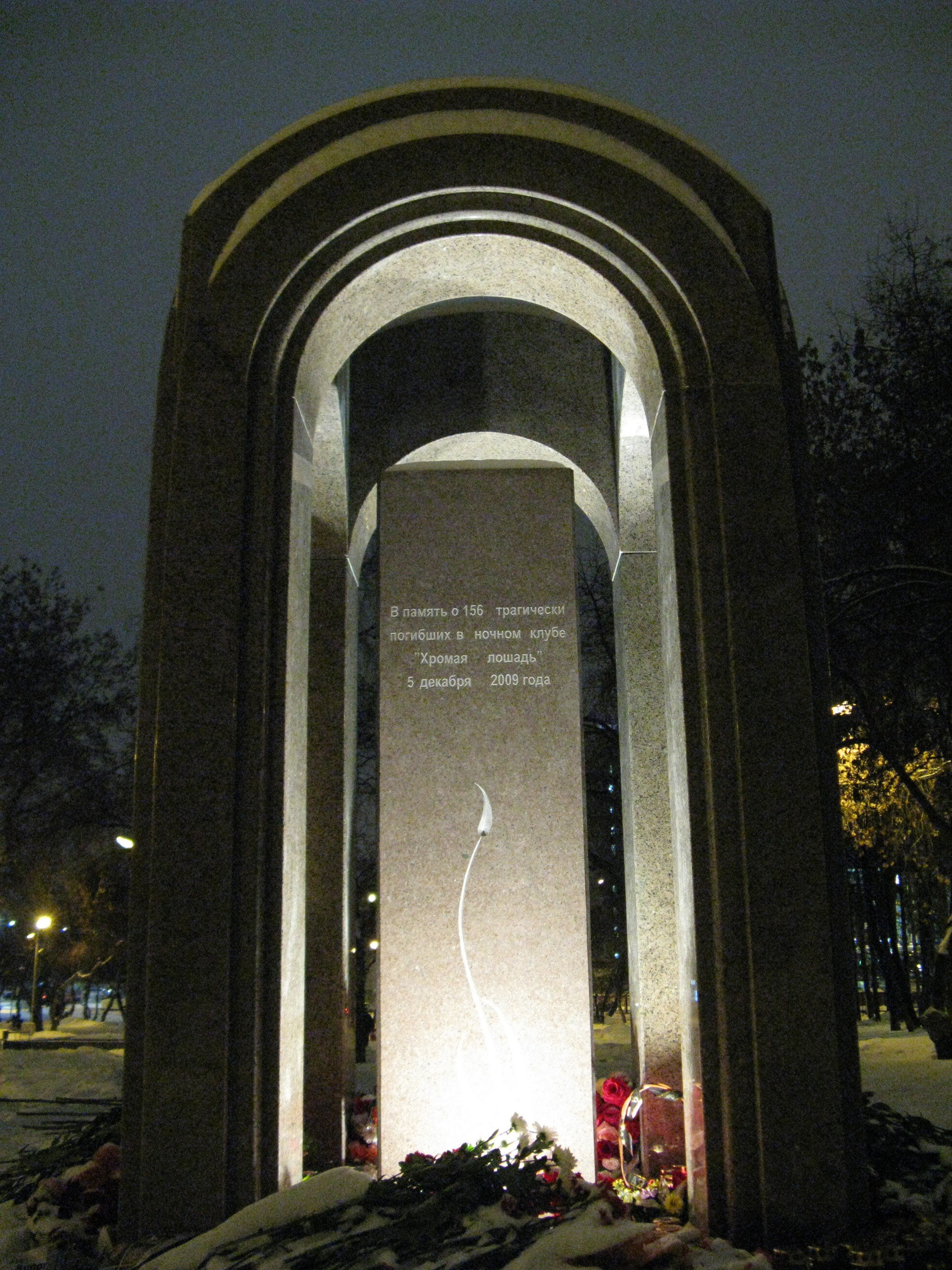 Memorial of memory of victims of the fire in the night club "Lame Horse" in Perm